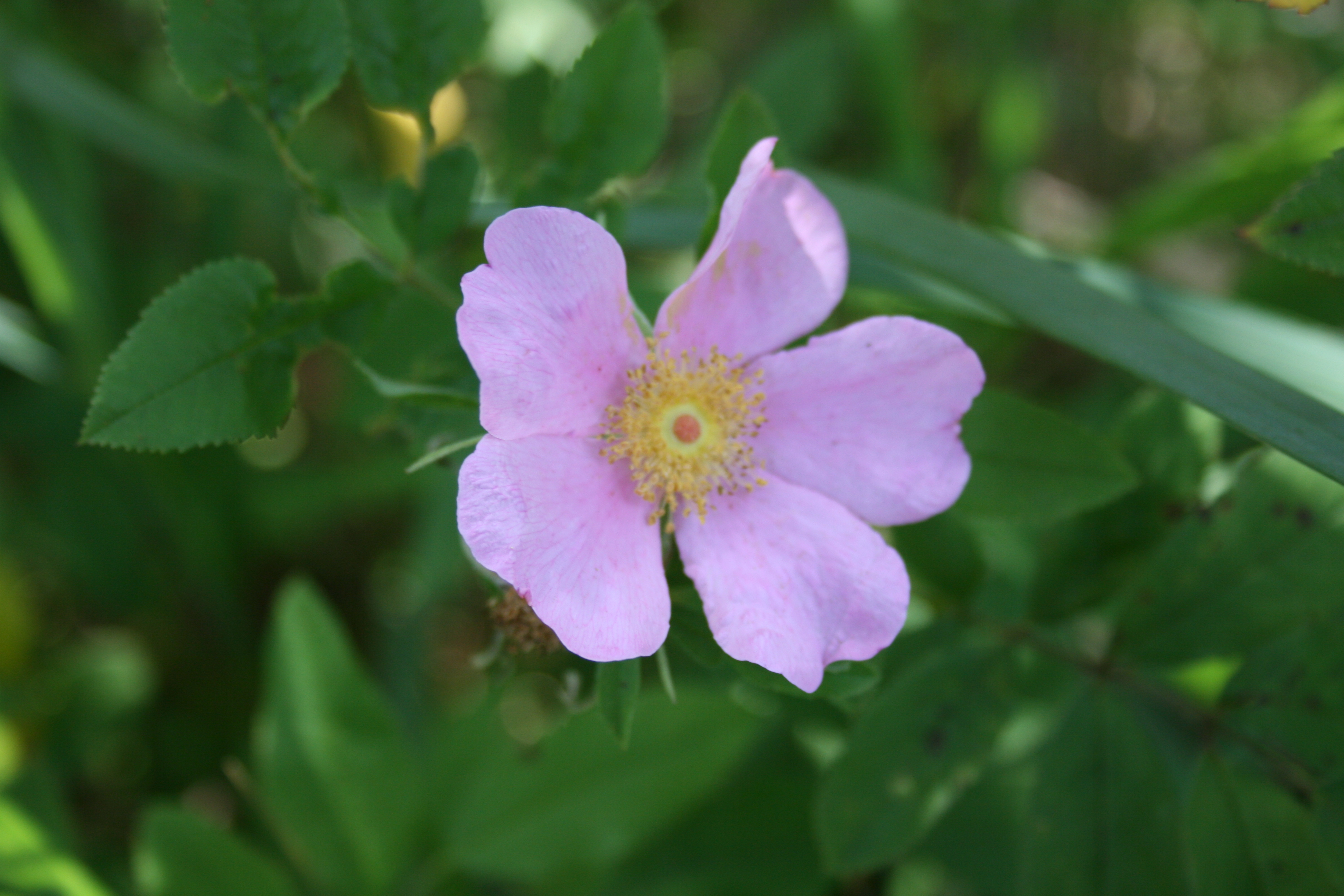 Pasture Rose (Rosa carolina) at Bicentennial Park Portage, Michigan.